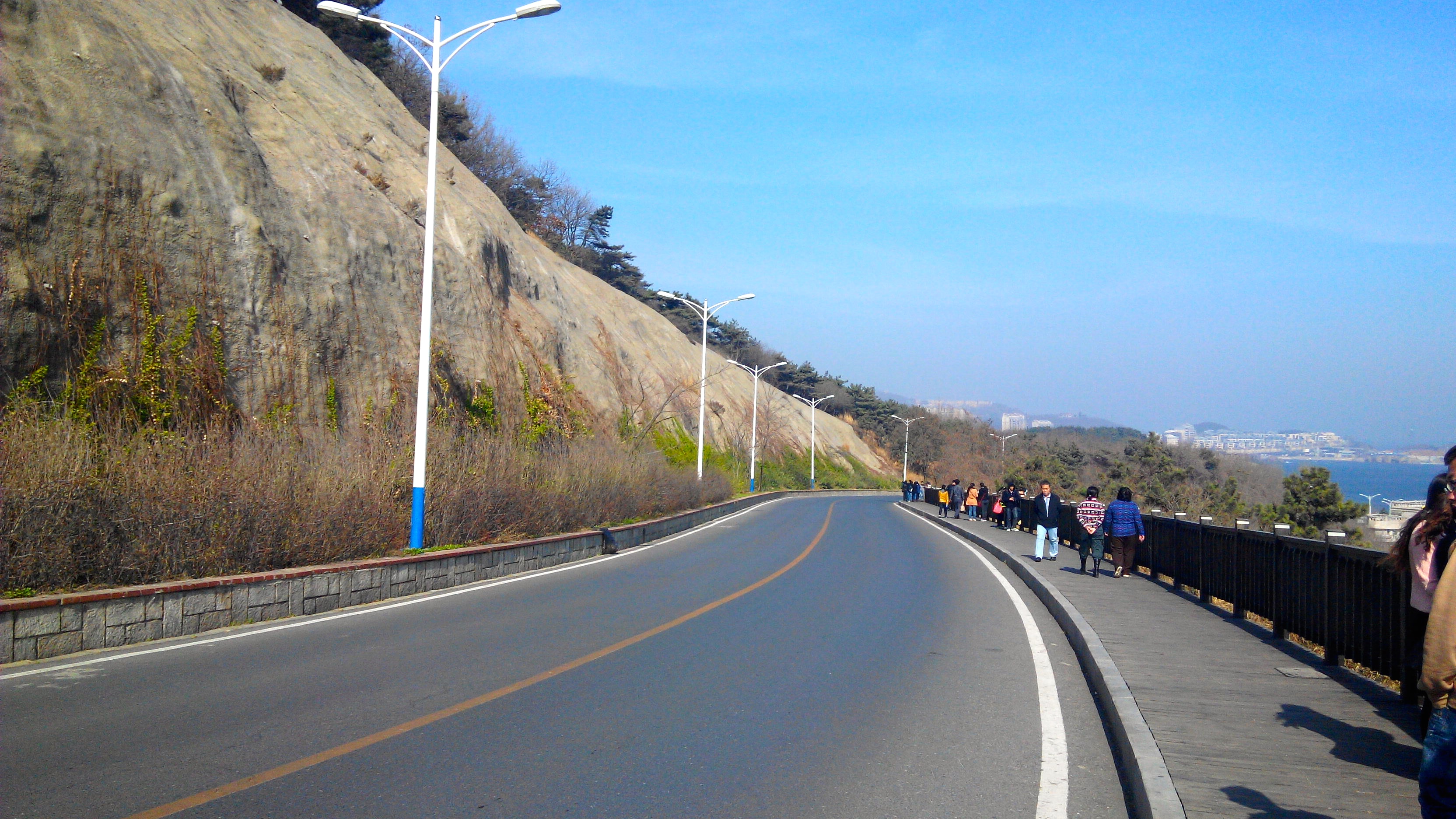 Binhai Road, Dalian, Liaoning Province, China